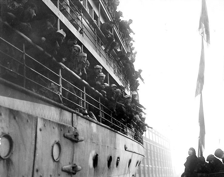 USS Mercy (ID # 1305, later AH-4) "The hospital ship Mercy, with several hundred heroes aboard, arriving in port of New York after a rough and stormy voyage. The ship was several days late, having been forced by the weather to put into Bermuda until weather had calmed. Photo shows boys clamoring for the necessities as women of the Police Reserve brought packages of smokes and chocolates." (quoted from the original photo caption). The photograph is dated 12 December 1918.